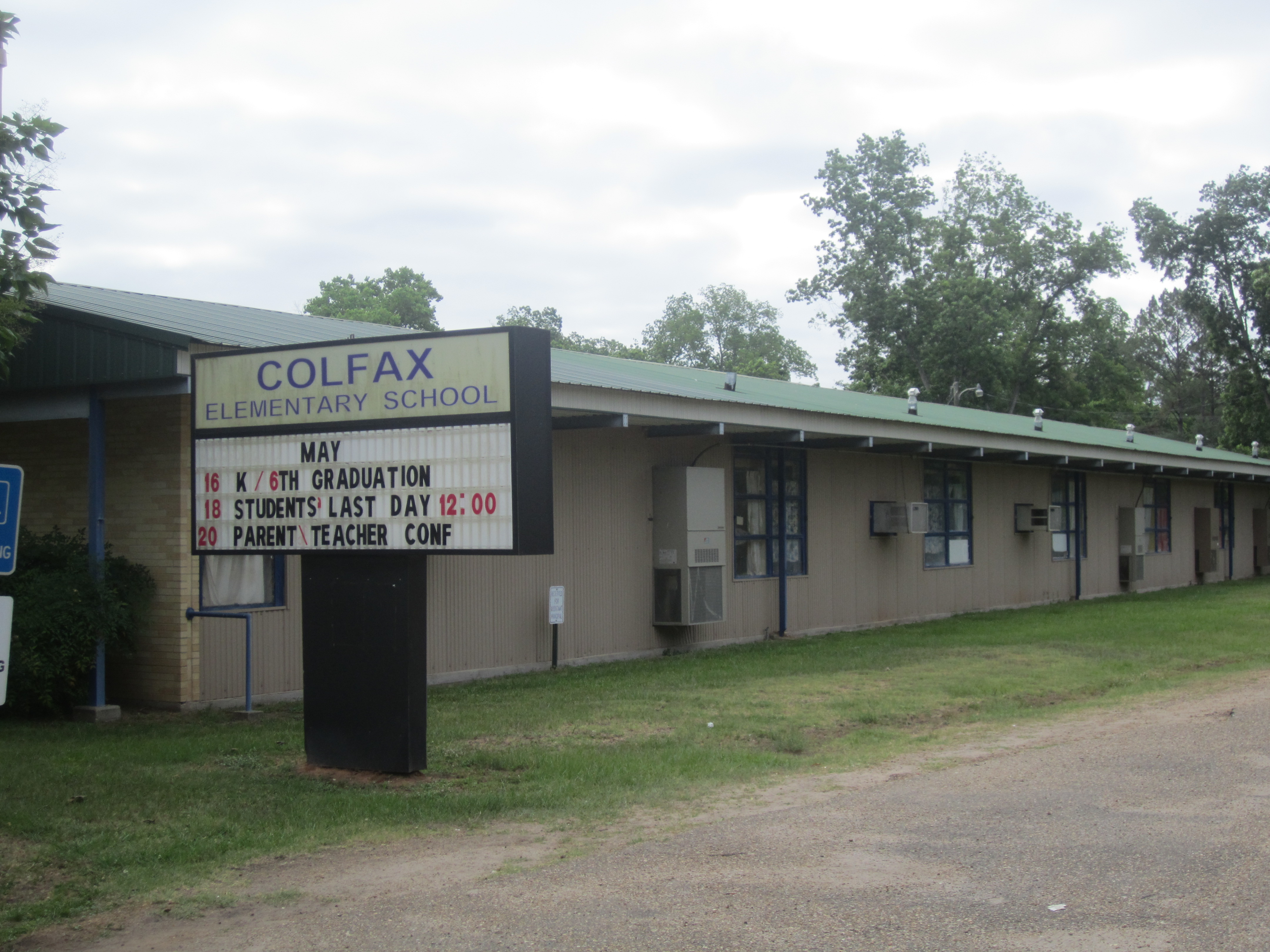 I took photo of Colfax Elementary School in Colfax, LA, with Canon camera.